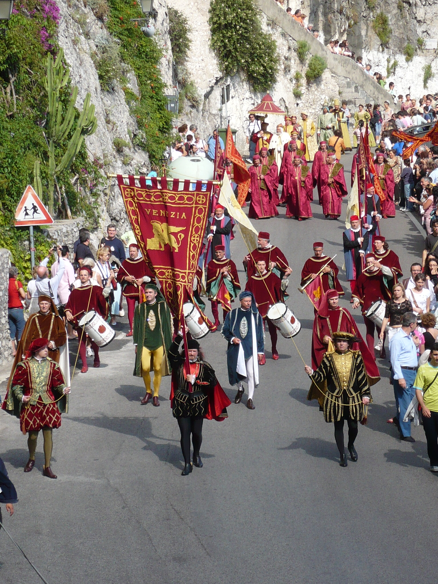 Historical Procession of Venice during the 53° Regatta of the Ancient Italian Maritime Republics. Amalfi, the 8th of June 2008.